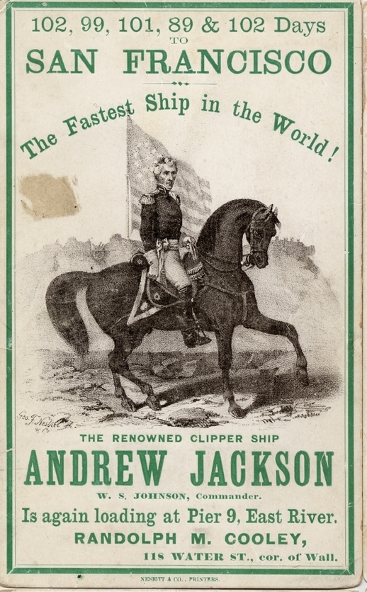 Sailing card for the clipper ship Andrew Jackson.